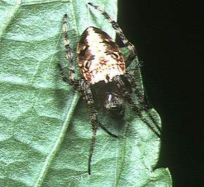 female Eriophora yanbaruensis from Okinawa.